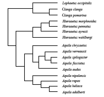 Phylogeny of aquiline eagles derived from the combined nuclear and mitochondrial DNA data and indel variation. - Fragment